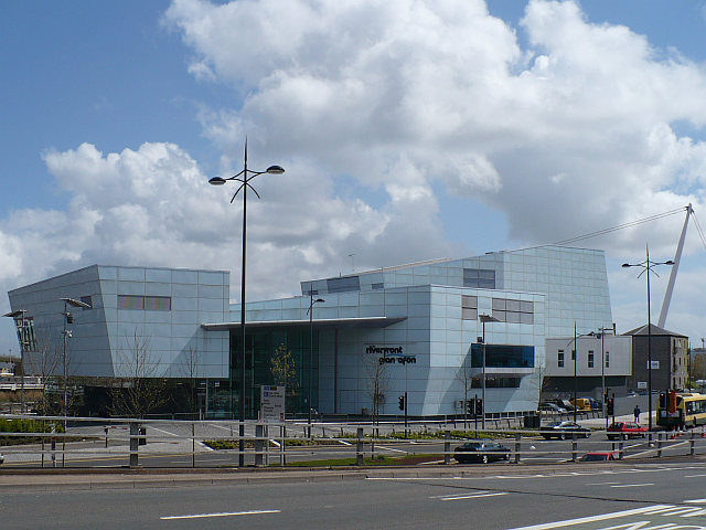 The Riverfront Arts Centre